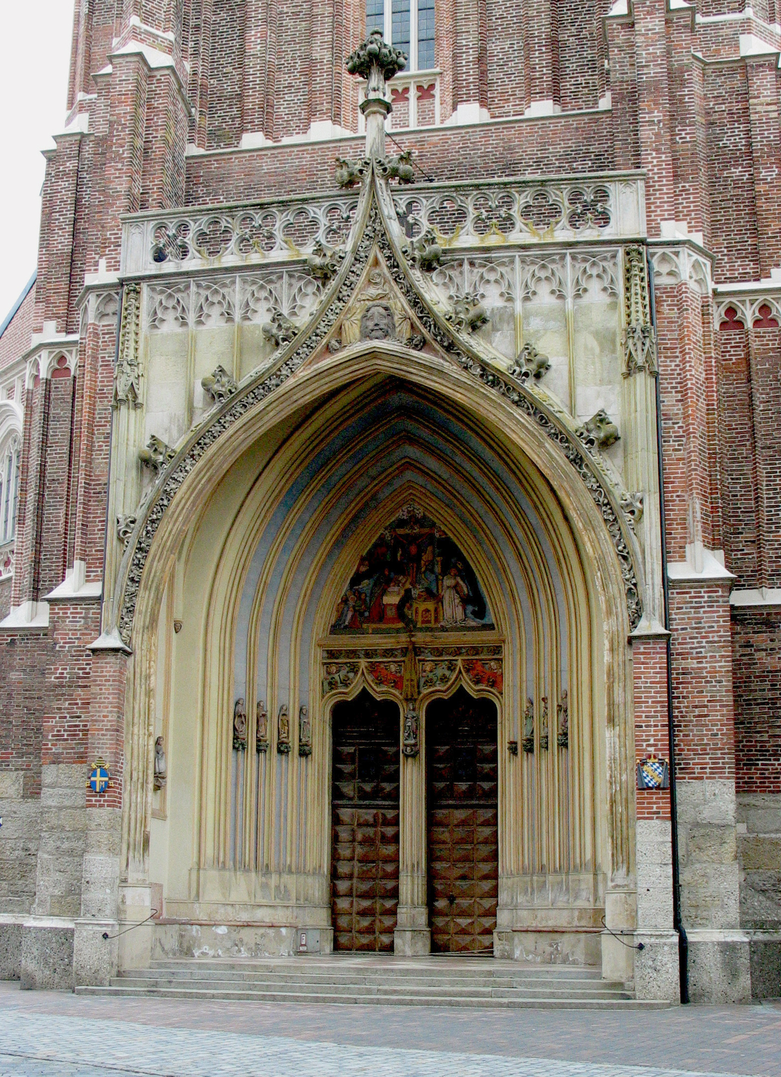 Landshut, Parish and Collegiate Church of St Martin and Castulus. Western portal.